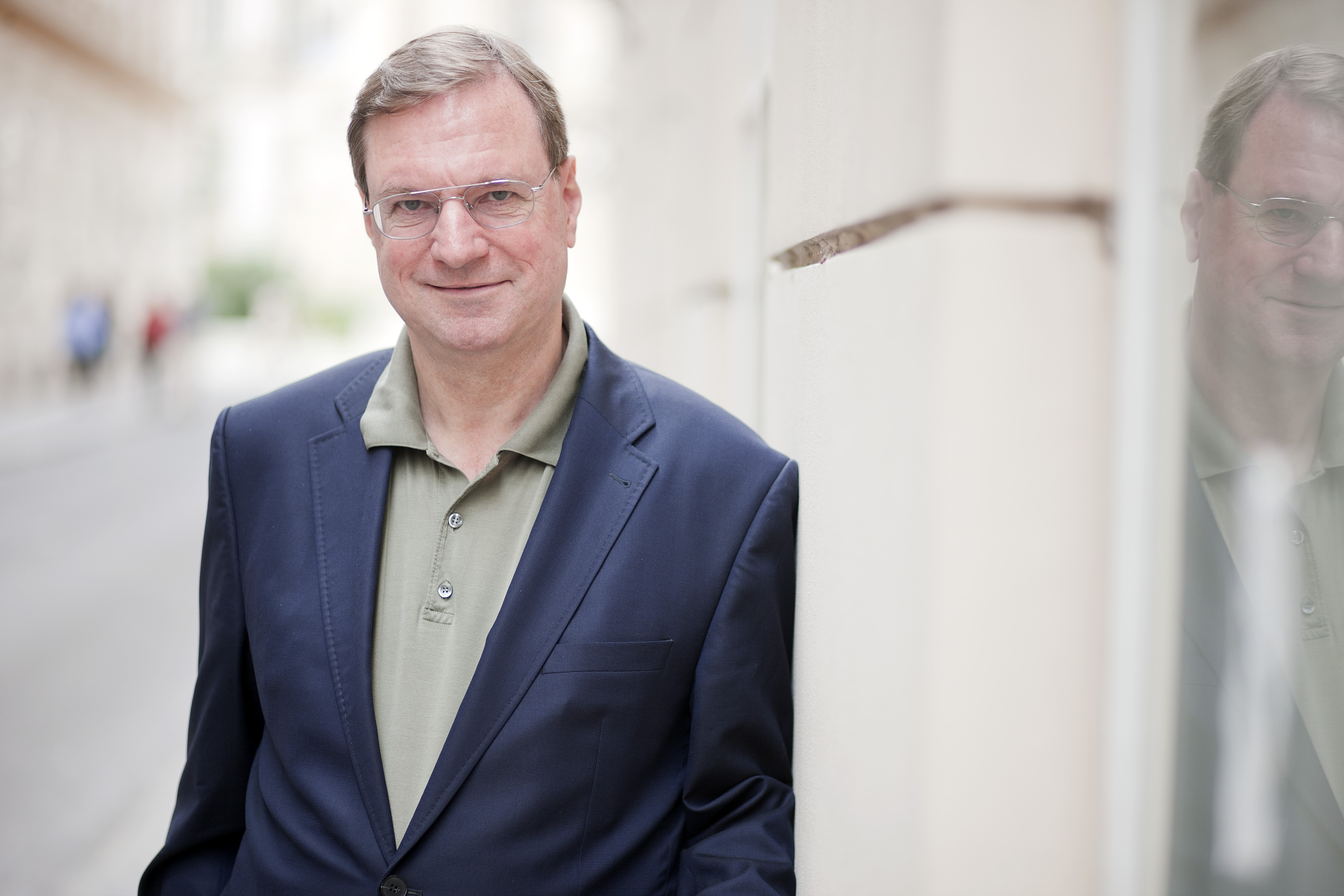 Robert Sedlaczek, Austrian journalist and writer of fact books on Austrian German, tarot and culture-historical topics.